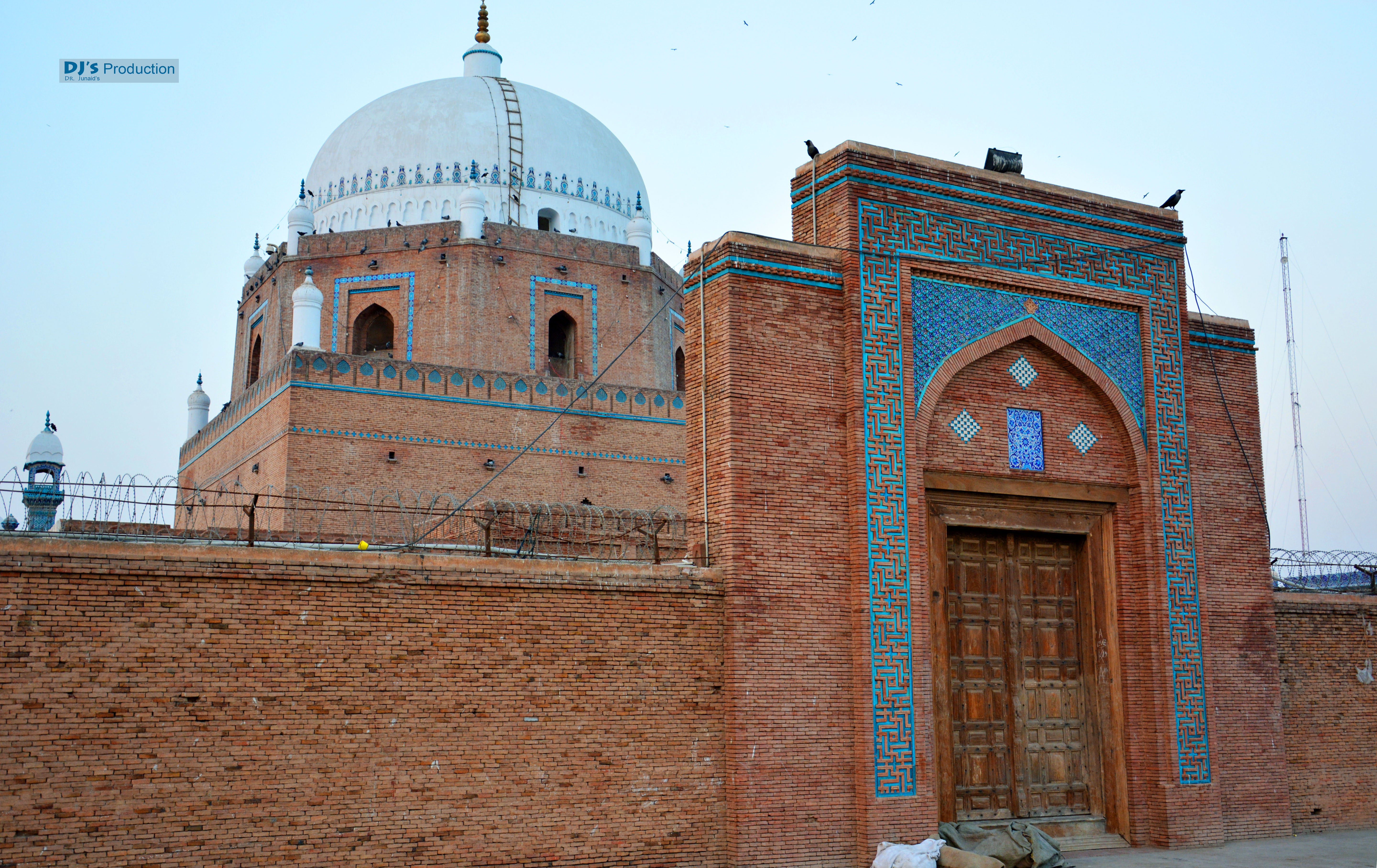 Shrine of Hazrat Baha-ud-din Zakariya This is a photo of a monument in Pakistan identified as the PB-P-156